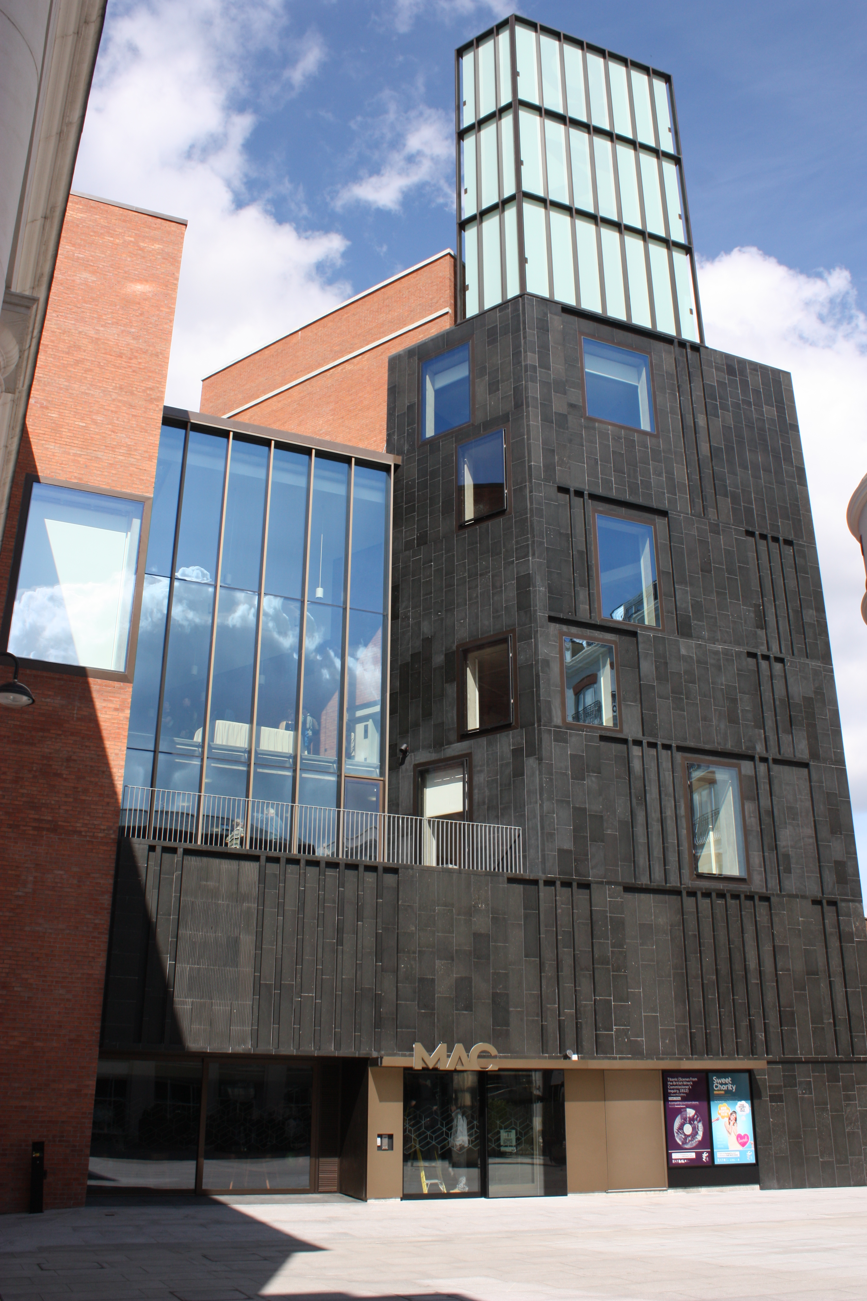 Exterior of The MAC (Metropolitan Arts Centre), Saint Anne's Square, Belfast, Northern Ireland, April 2012 (the day after the official opening)